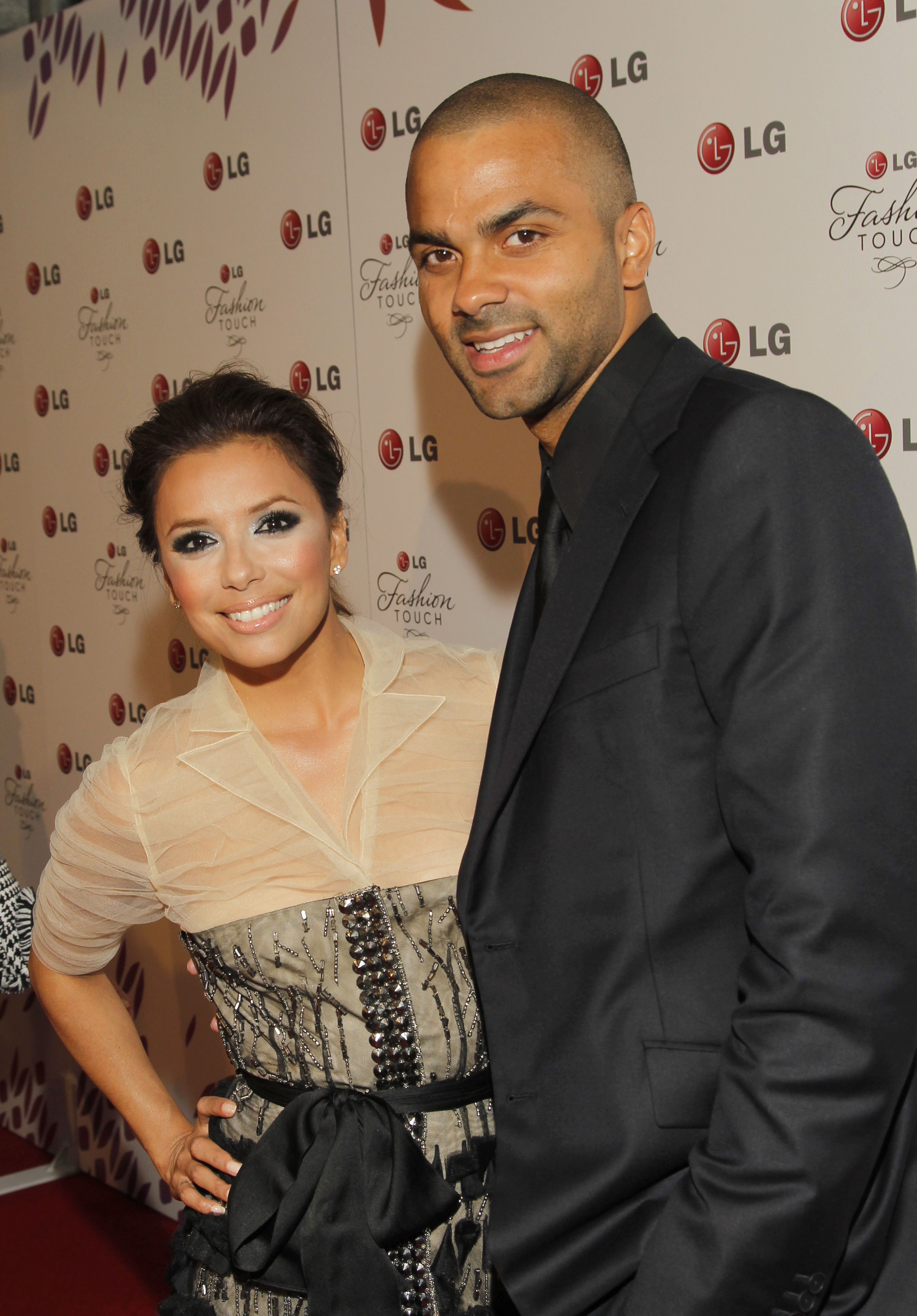 LG Mobile Phone Touch Event Hosted By Eva Longoria Parker and Tony Parker